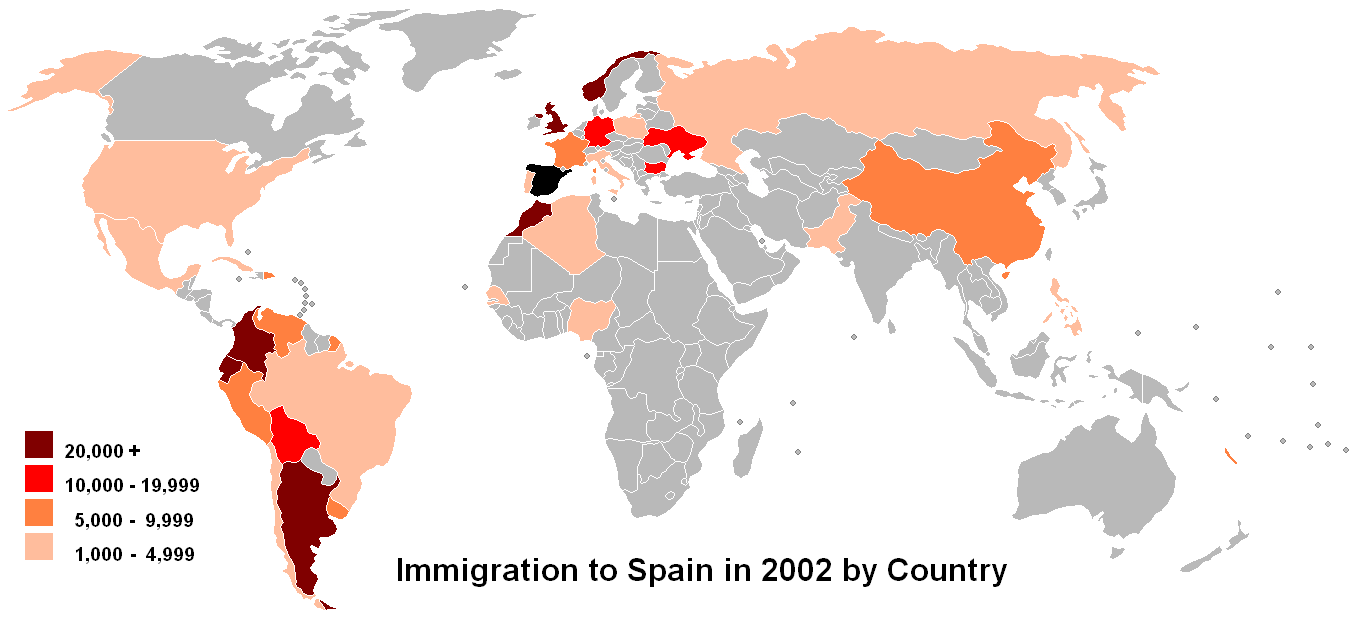 Immigration to Spain in 2002